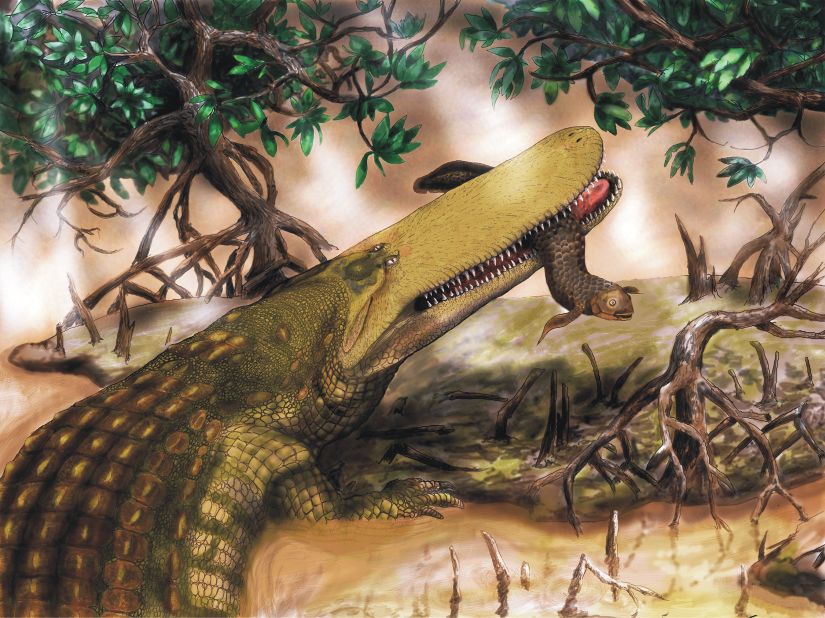 Life restoration of Aegisuchus witmeri, a giant, flat-headed, ornamented crocodyliform from the Late Cretaceous of northern Africa.